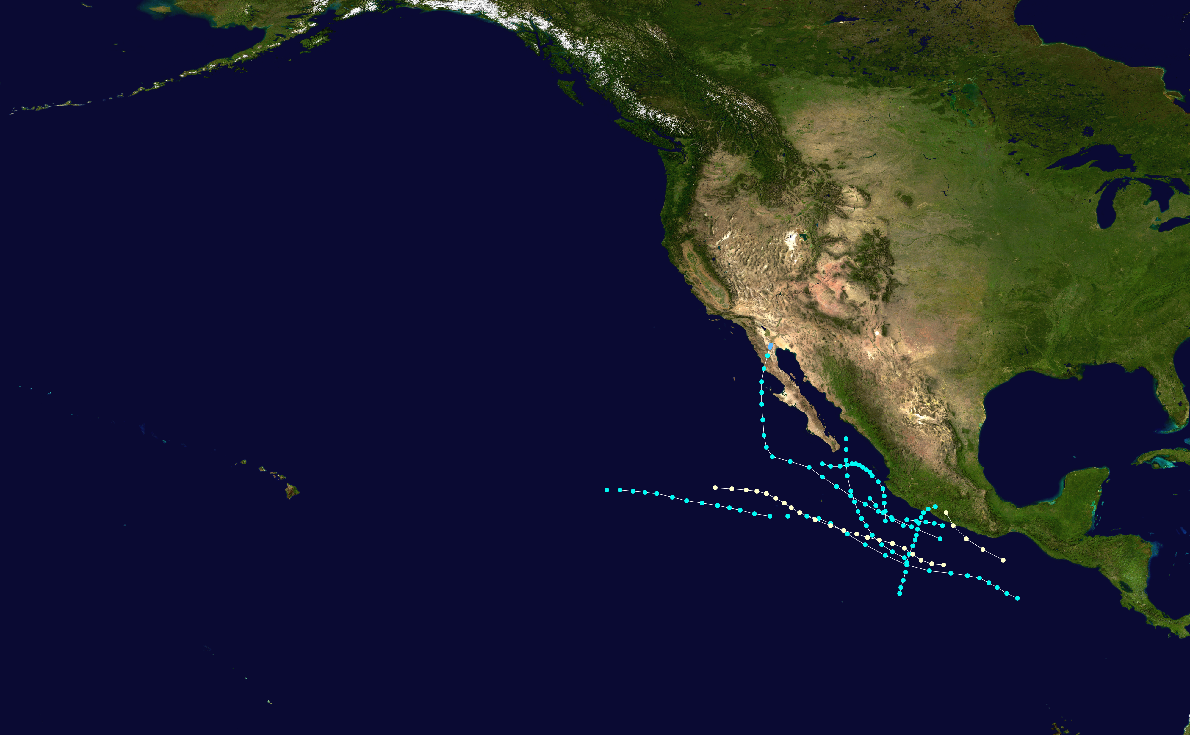 This map shows the tracks of all tropical cyclones in the 1951 Pacific hurricane season. The points show the location of each storm at 6-hour intervals. The colour represents the storm's maximum sustained wind speeds as classified in the Saffir-Simpson Hurricane Scale (see below), and the shape of the data points represent the type of the storm. Saffir–Simpson hurricane wind scale Tropical depression≤38 mph≤62 km/h Category 3111–129 mph178–208 km/h Tropical storm39–73 mph63–118 km/h Category 4130–156 mph209–251 km/h Category 174–95 mph119–153 km/h Category 5≥157 mph≥252 km/h Category 296–110 mph154–177 km/h Unknown Storm typeTropical cycloneSubtropical cycloneExtratropical cyclone / Remnant low / Tropical disturbance